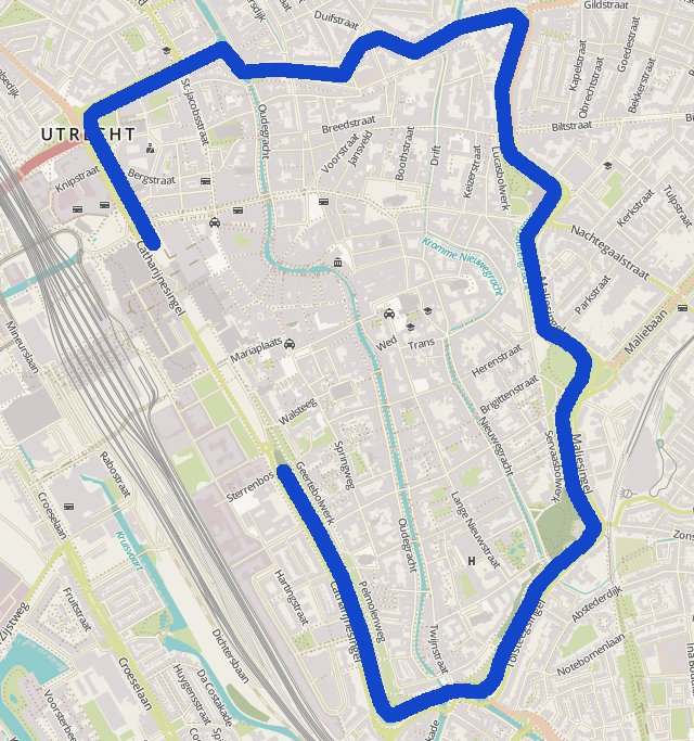 Map of the Stadsbuitengracht waterway in Utrecht, The Netherlands